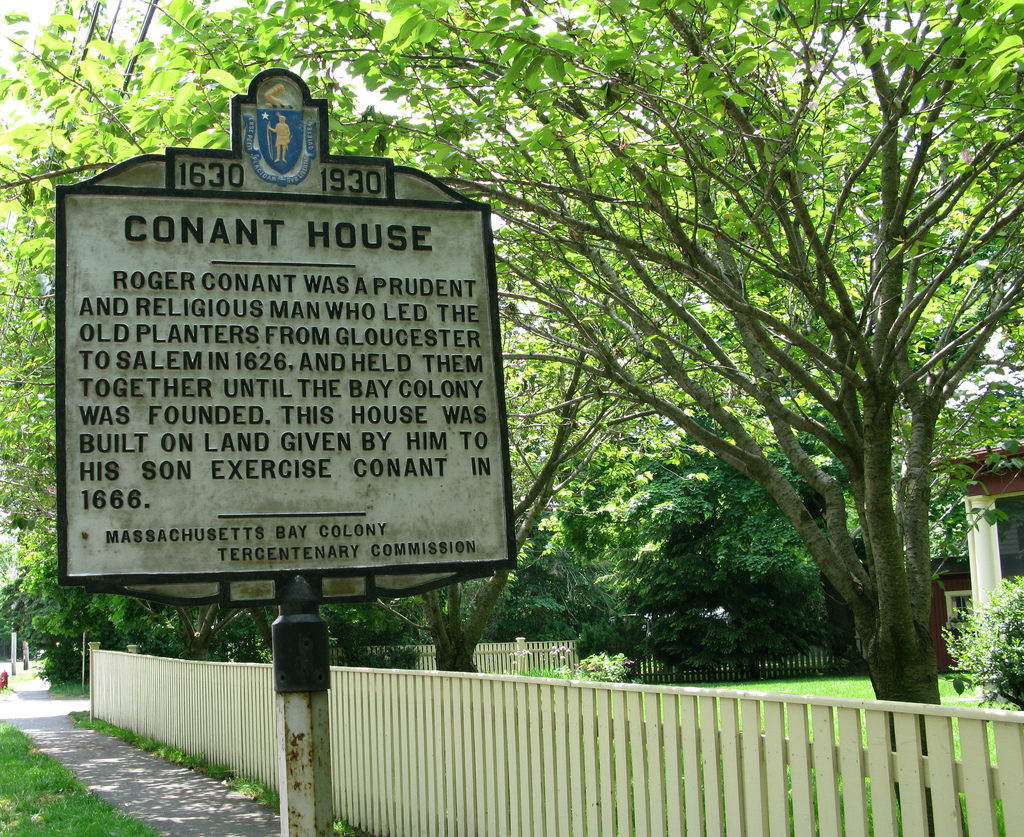 Marker text: "Roger Conant was a prudent and religious man who led the Old Planters from Gloucester to Salem in 1626, and held them together until the Bay Colony was founded. This house was built on land given by him to his son Exercise Conant in 1666."